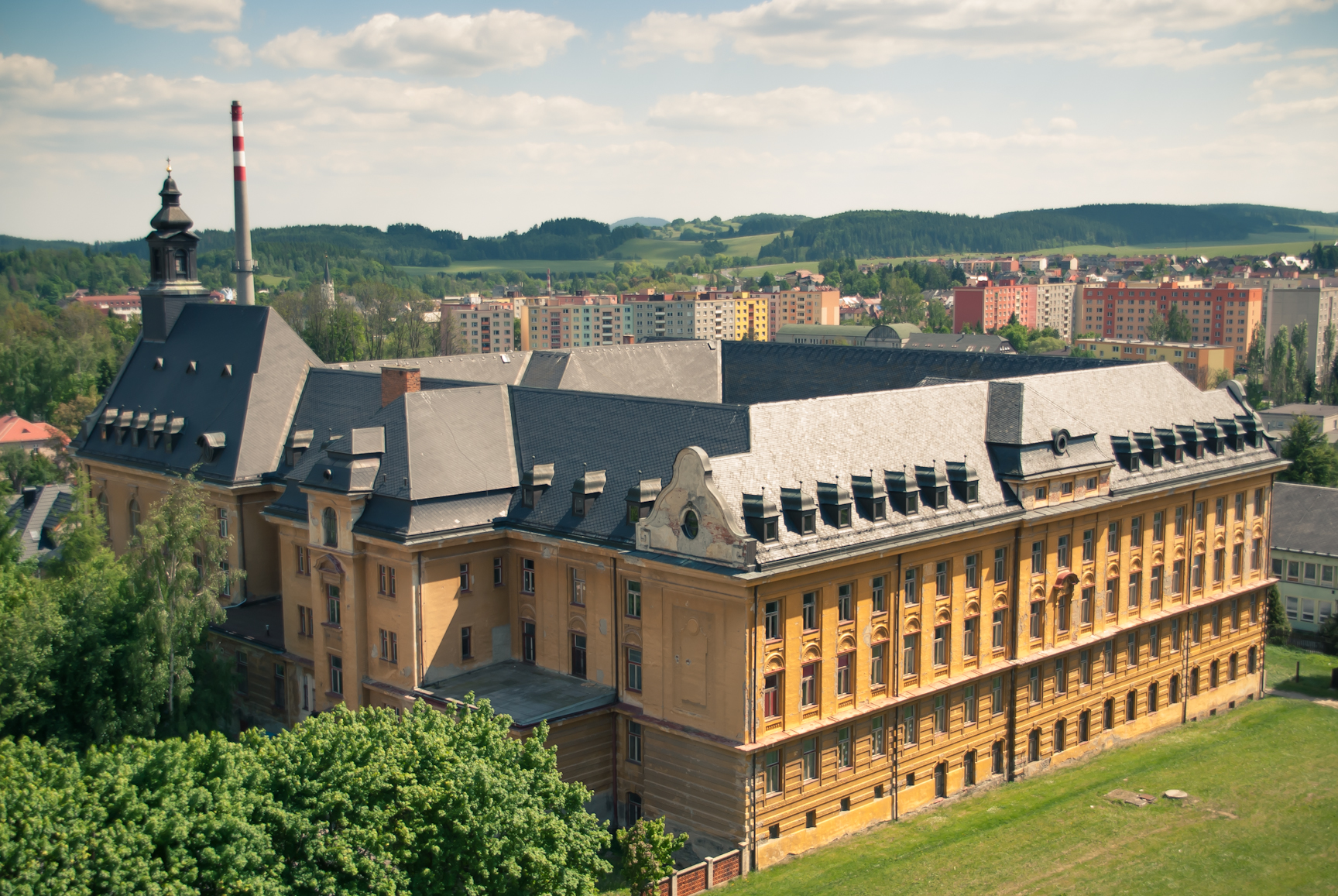 Gymnasium Petrin